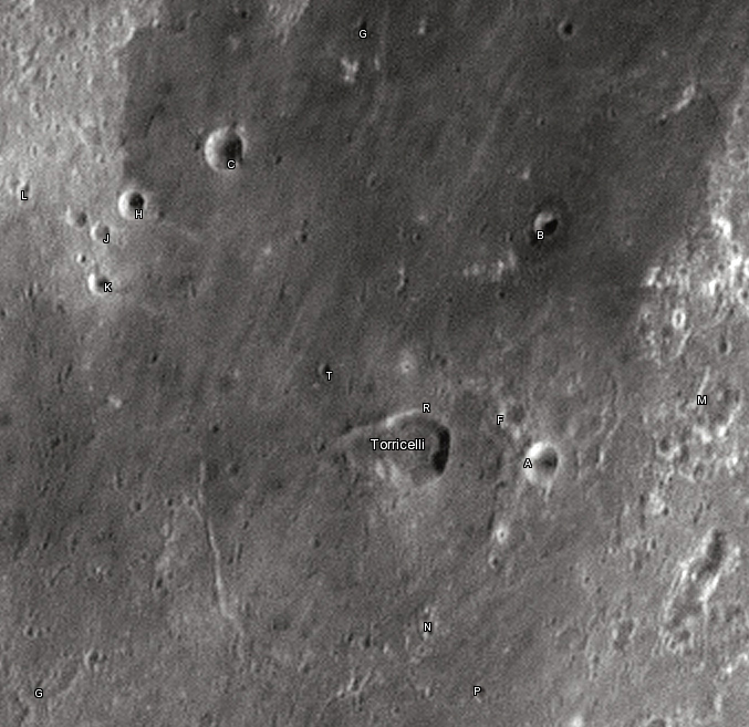 Torricelli lunar crater as seen from Earth with satellite craters labeled